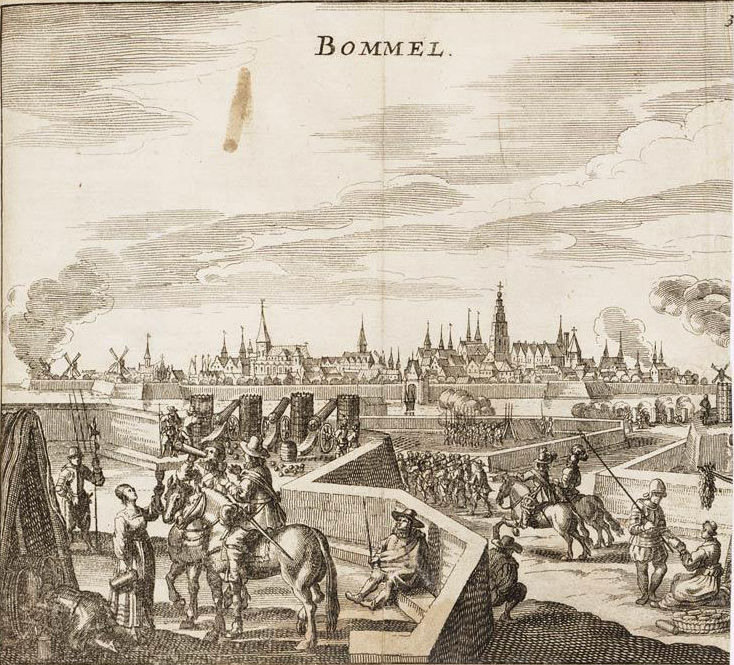 Siege of Zaltbommel in 1599